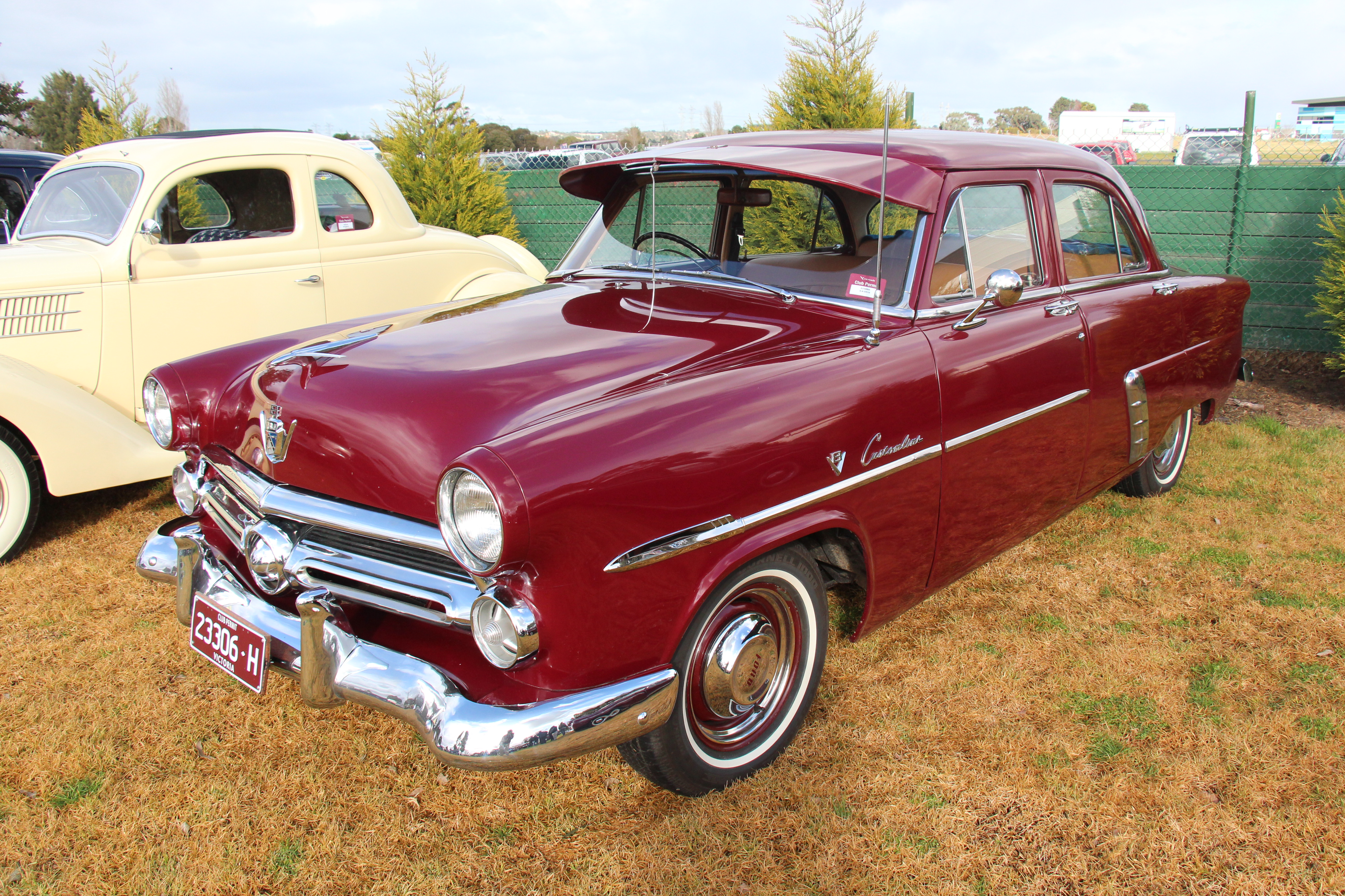 The 1952-54 Fords got refreshed styling, now with a one piece windshield and a new OHV 6 cylinder engine. The 1952 Ford's grille got a single central bullet surrounded by a chrome ring, the horizontal bars, had a slot in them. A revised grille for 1953, the central bullet lost its ring, bars either side were now solid. For 1954, back to a similar grille of 1952 with ring around central bullet, but with chrome teeth below the solid bar. The old flathead V8 was replaced by the OHV Y block V8 in 1954. The base model was now the Mainline, mid, Customline and top was the Crestline Sedan, which also included the Sunliner Convertible, Victoria Hardtop and Country Squire Wagon. The Skyliner two-door hardtop, it had an acrylic glass panel over the front half of the roof ,was introduced in 1954. The 1952-54 Fords were also produced in Australia; but only in the V8 Customline Sedan, and unique to Australia, the V8 Mainline Coupe Utility. In Australia the Flathead V8 was retained in 1954. The engine in the Australian cars; 110hp 239 Flathead V8